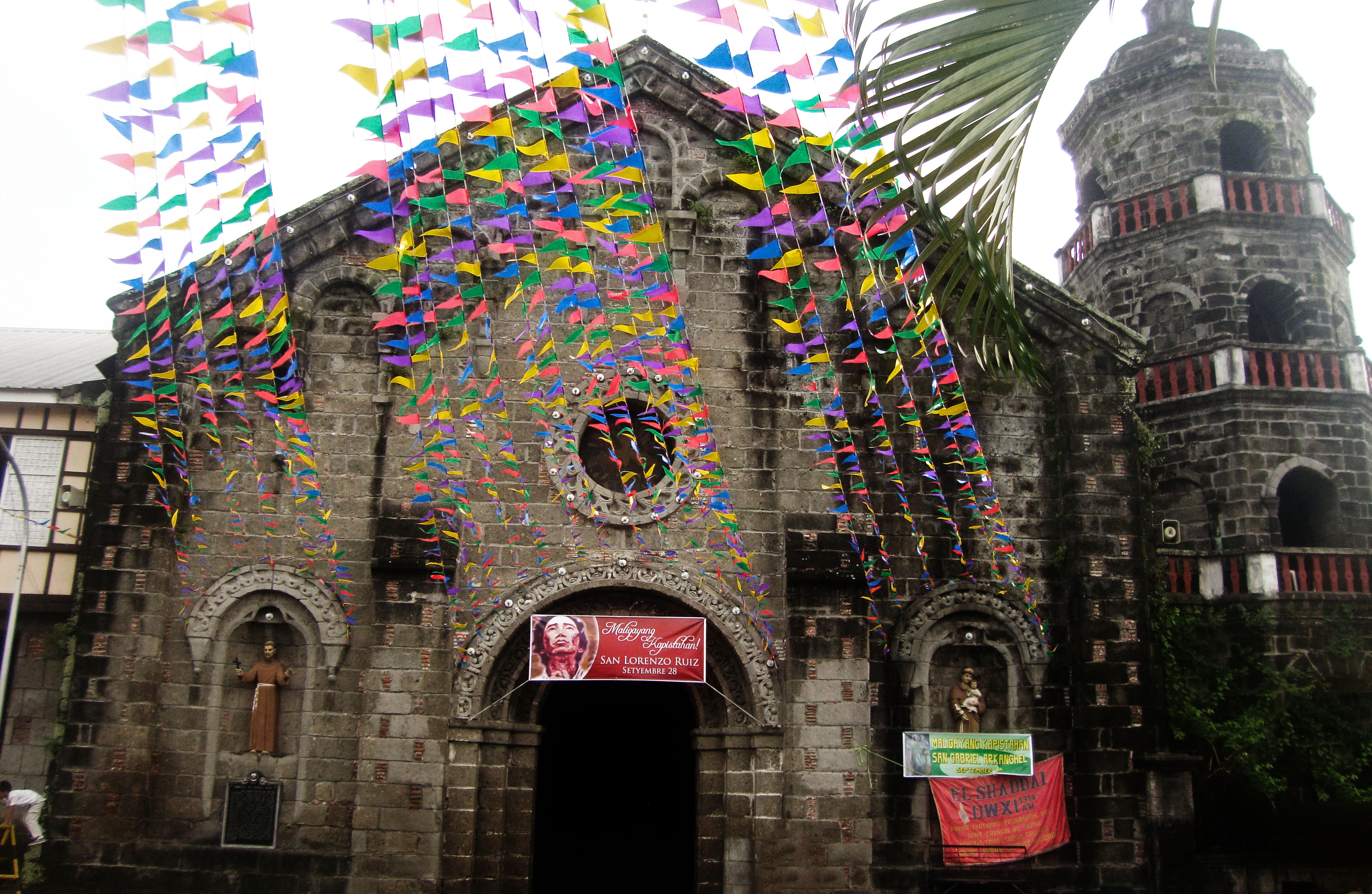 Located in the capital of General Trias, next to the Town Plaza and Municipal Office. General Trias Church was constructed in 1769 under the supervision of Donya Josepha De Yrizzari Y Ursula Condesa De Lizarraga but it was in 1834 when the Jesuits of Cavite decided to extend the church facilities and land area. Unfortunately it was greatly affected by the 1880 earthquake that shook the whole province of Cavite. It was reconstructed in 1881 and galvanized 1892.